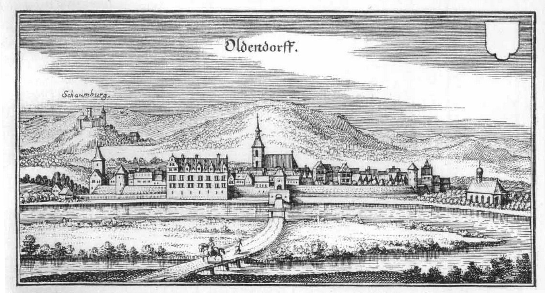 This is a scan of the historical document